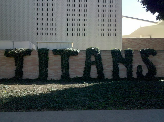 This is on the exterior of the northern wall of Titan Gym, where Cal State Fullerton plays its home basketball games.